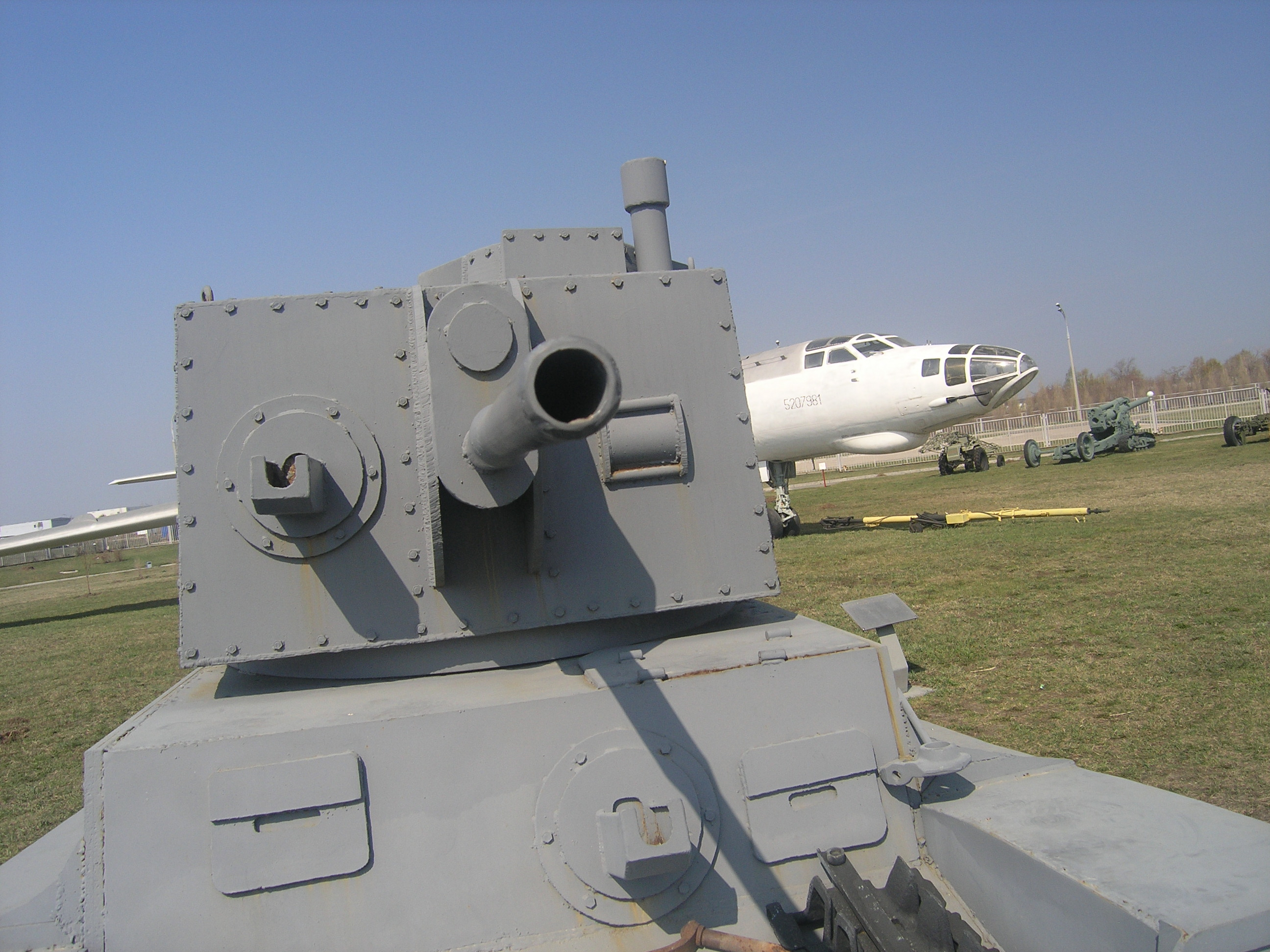 LT-38 (Panzer 38(t)), Technical museum in Togliatti, Russia